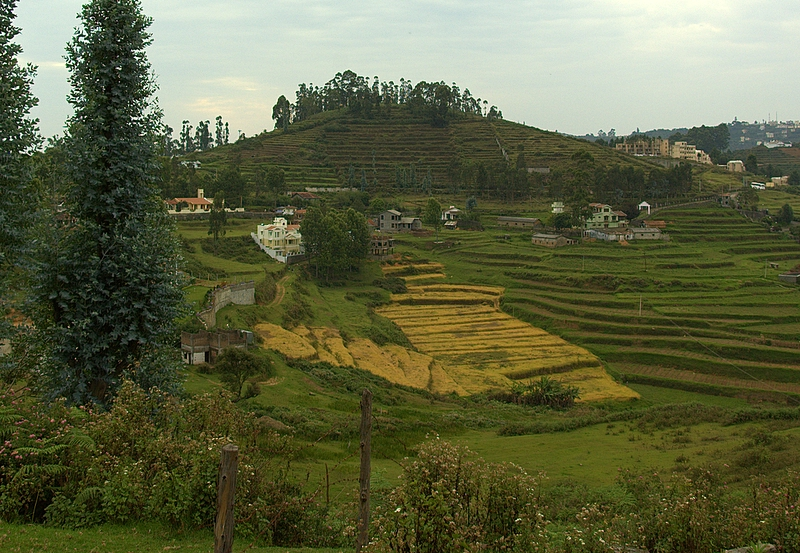 Hill Station in Tamil Nadu.